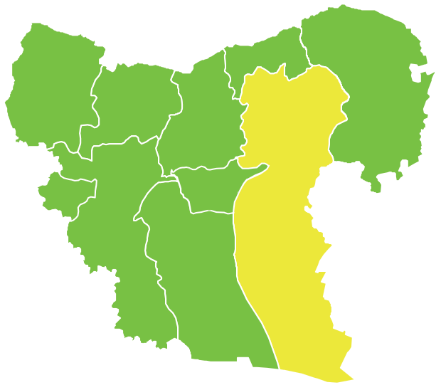 Manbij District, Syrian governorate of Aleppo Governorate.